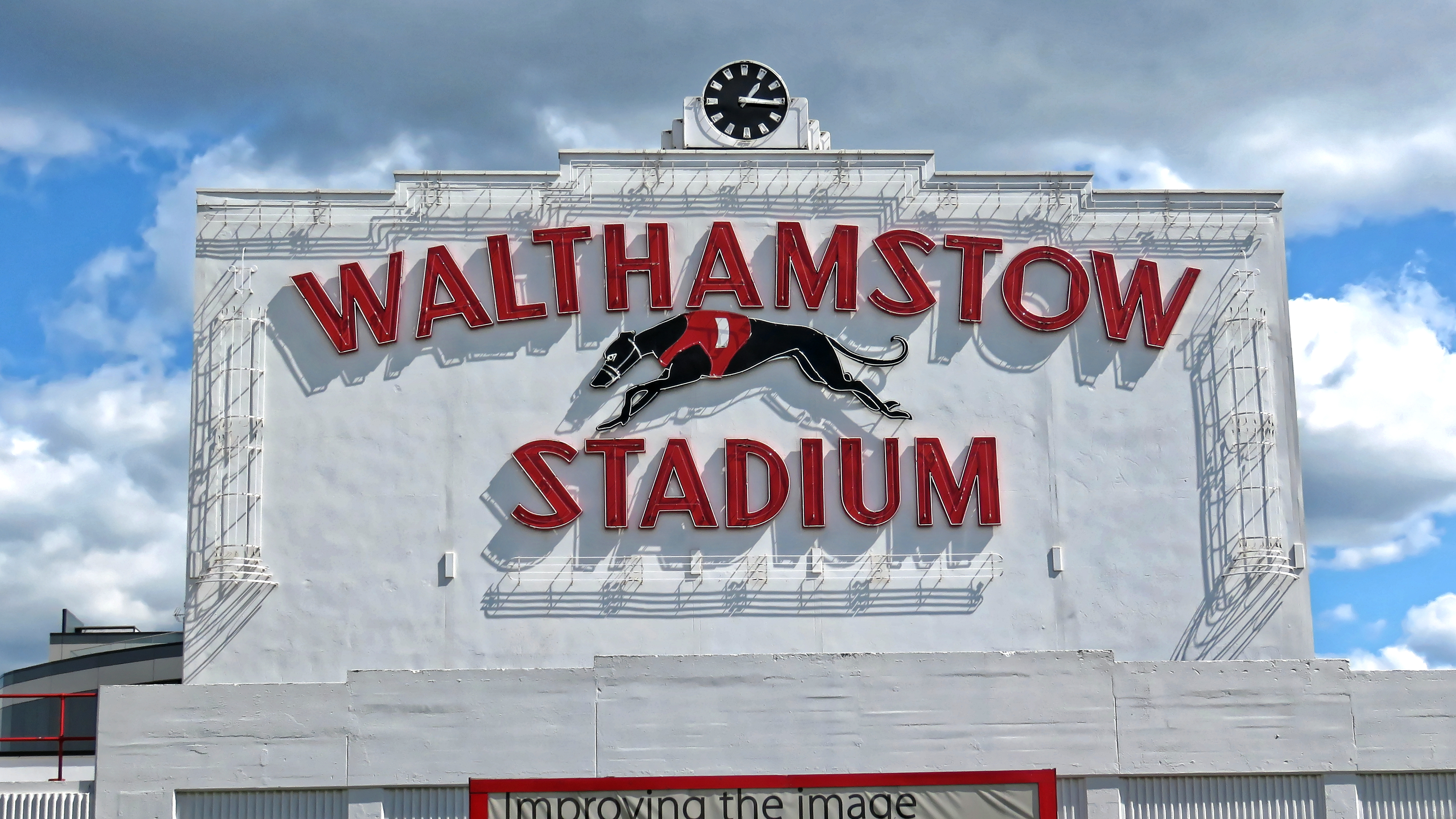 Refurbished frontage of Walthamstow Stadium on the A112 Chingford Mount Road, north from the Crooked Billet Interchange of the A406 North Circular Road, in the London Borough of Waltham Forest, England.Camera: Canon PowerShot SX60 HSSoftware: File lens-corrected, optimized, perhaps cropped, with DxO OpticsPro 11 Elite, and further optimized with Adobe Photoshop CS2.